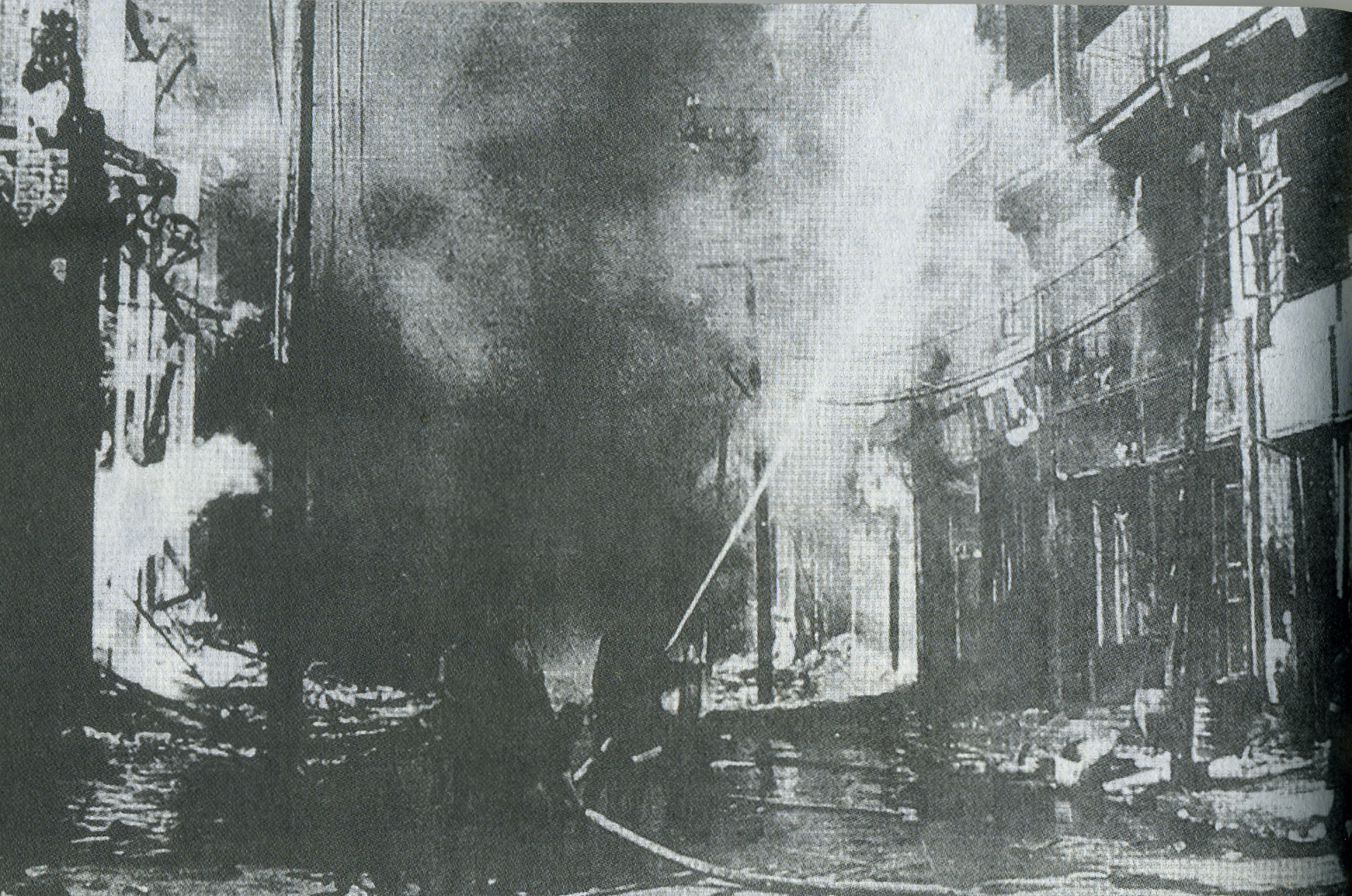 This describes the street of Chongqing